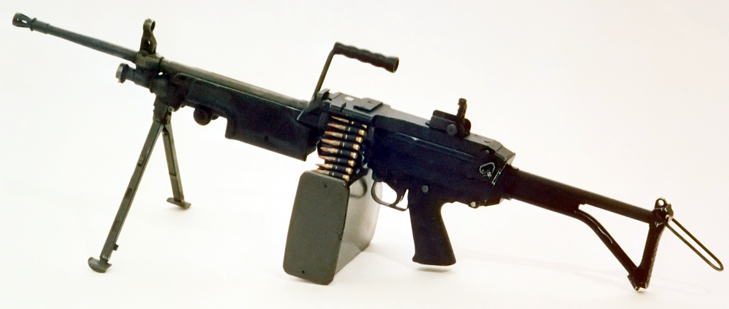 A view of an M249 5.56 mm squad automatic weapon (SAW) with a 200 round box of ammunition attached. The SAW was adopted by the Army and Marine Corps in 1982. (cropped)